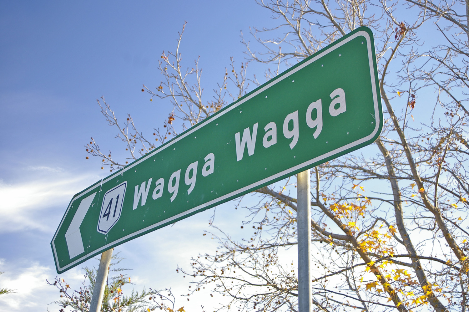 Route 41 sign in Mills Street North Wagga.